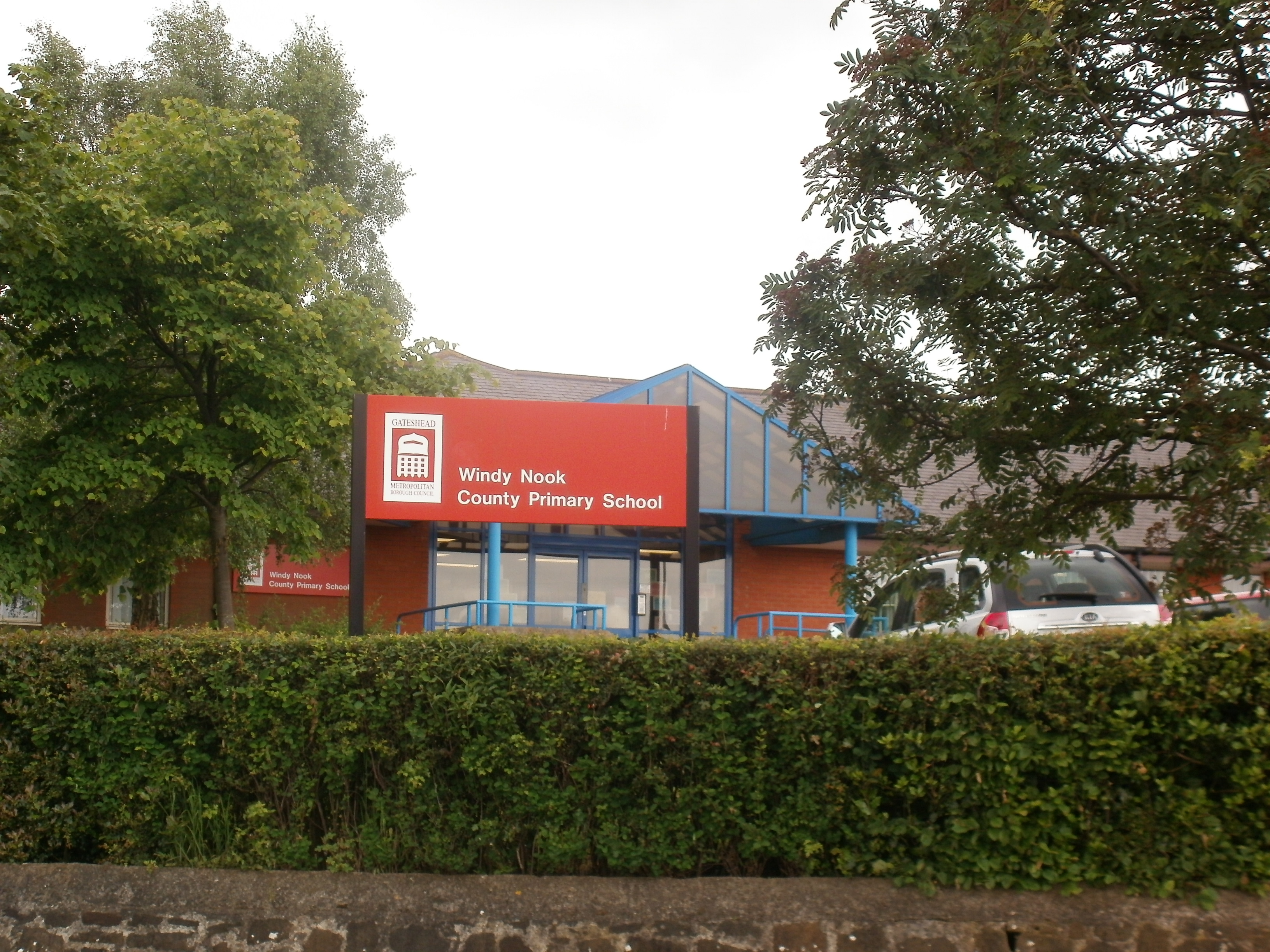 The front entrance to Windy Nook Primary School, Gateshead